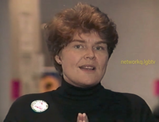 Former Executive Director Torie Osborn at the National Gay and Lesbian Task Force's Creating Change Conference in Raleigh, North Carolina in 1993. From Network Q Out Across America Episode 27, January 1994. Watch the rest of the episode at Produced and directed by David Surber. Originally distributed via subscription on VHS tape; aired on public television in the US in 1995.